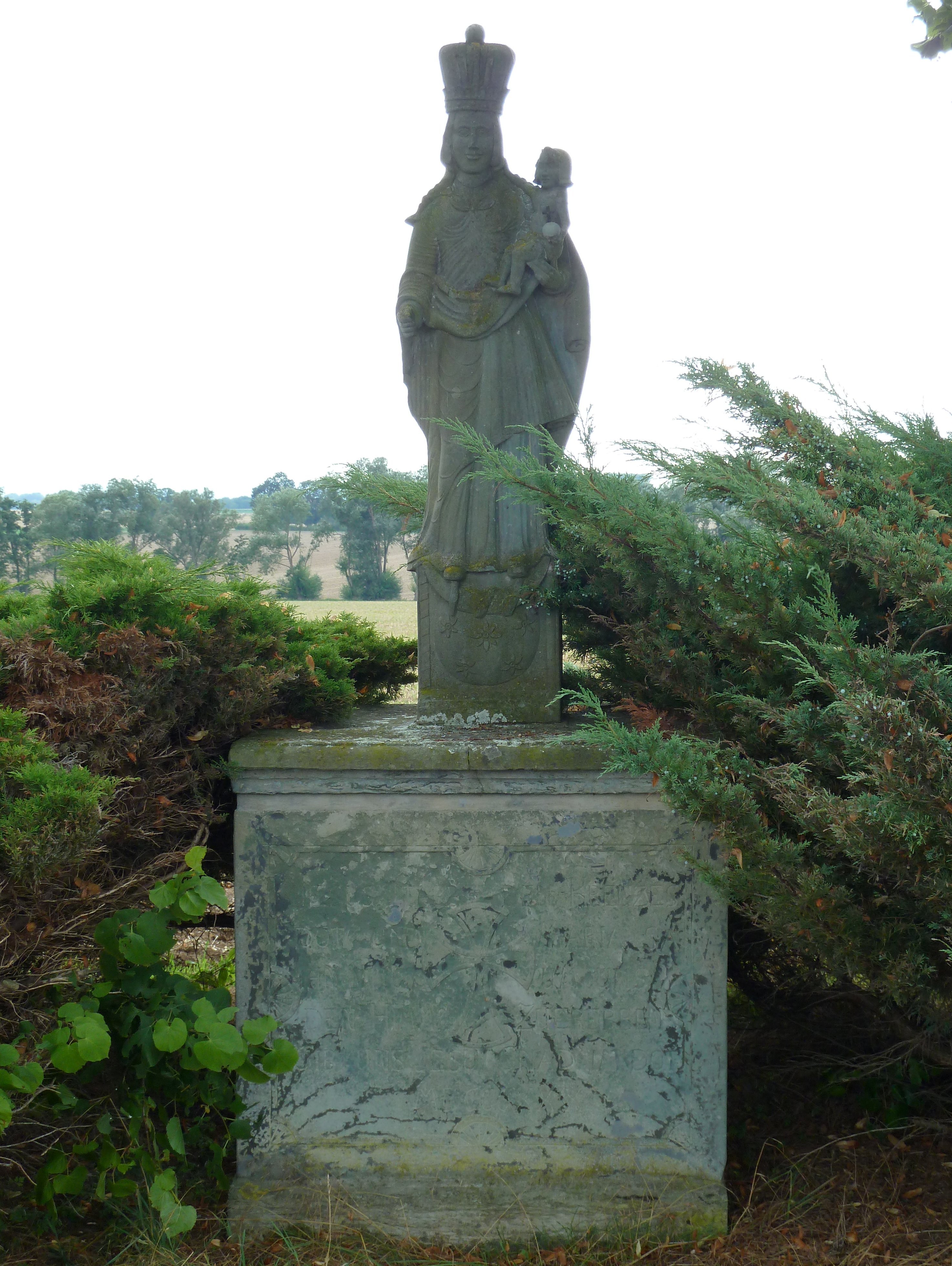 Statue of the Virgin Mary at Norddorf (Erwitte).